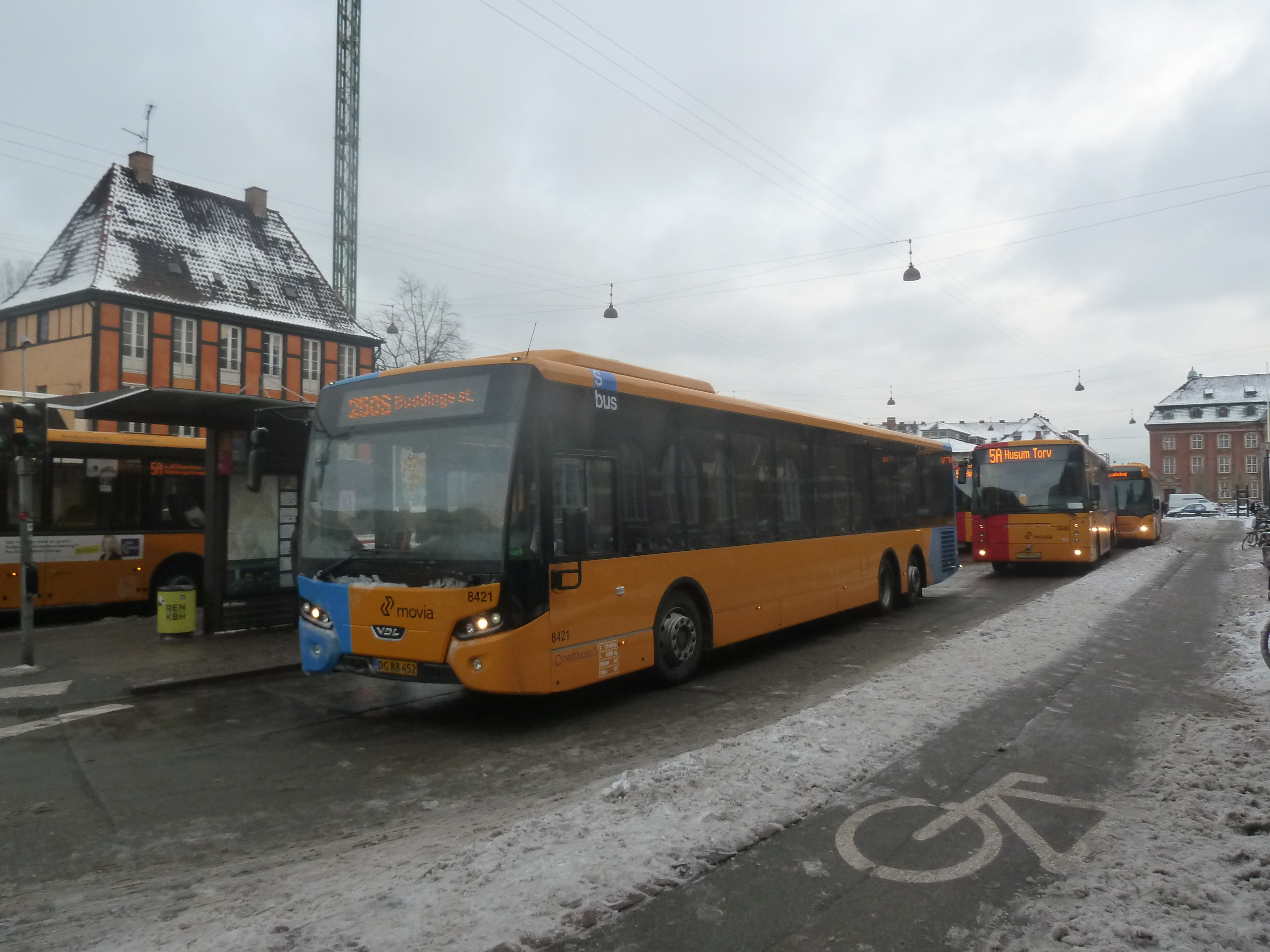 Movia bus line 250S and 5A in the terminal in Bernstorffsgade at Copenhagen Central Station.